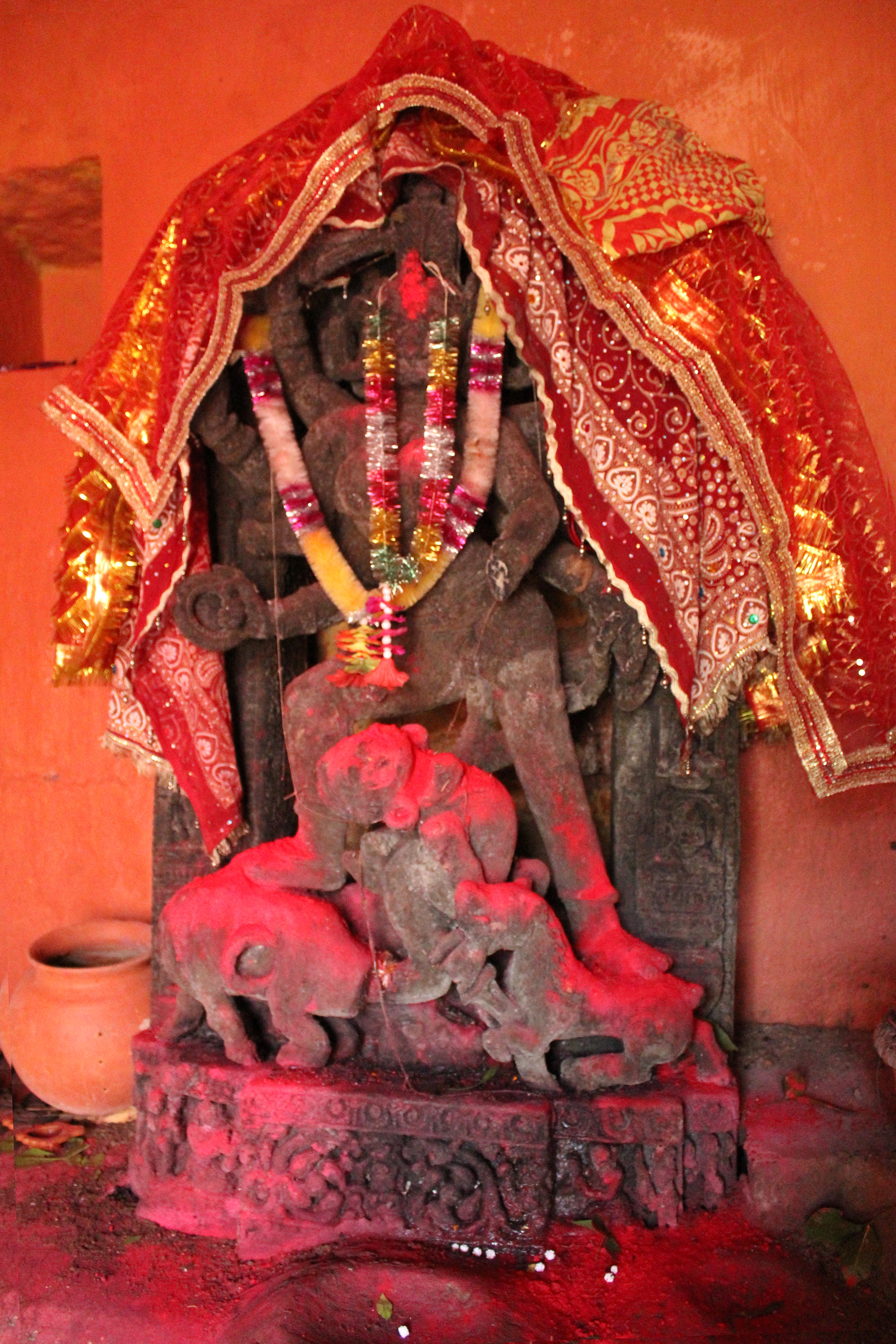 Deulghata is a place in the Purulia district of West Bengal. Deulghata literally means 'the land of the Deuls'. At present there are 2 deuls at Deulghata. The picture shows a sculpture of Goddess Durga adjacent to the Deuls of Deulghata. The Durga is in Mahishasuramardhini form (Demon slaying).